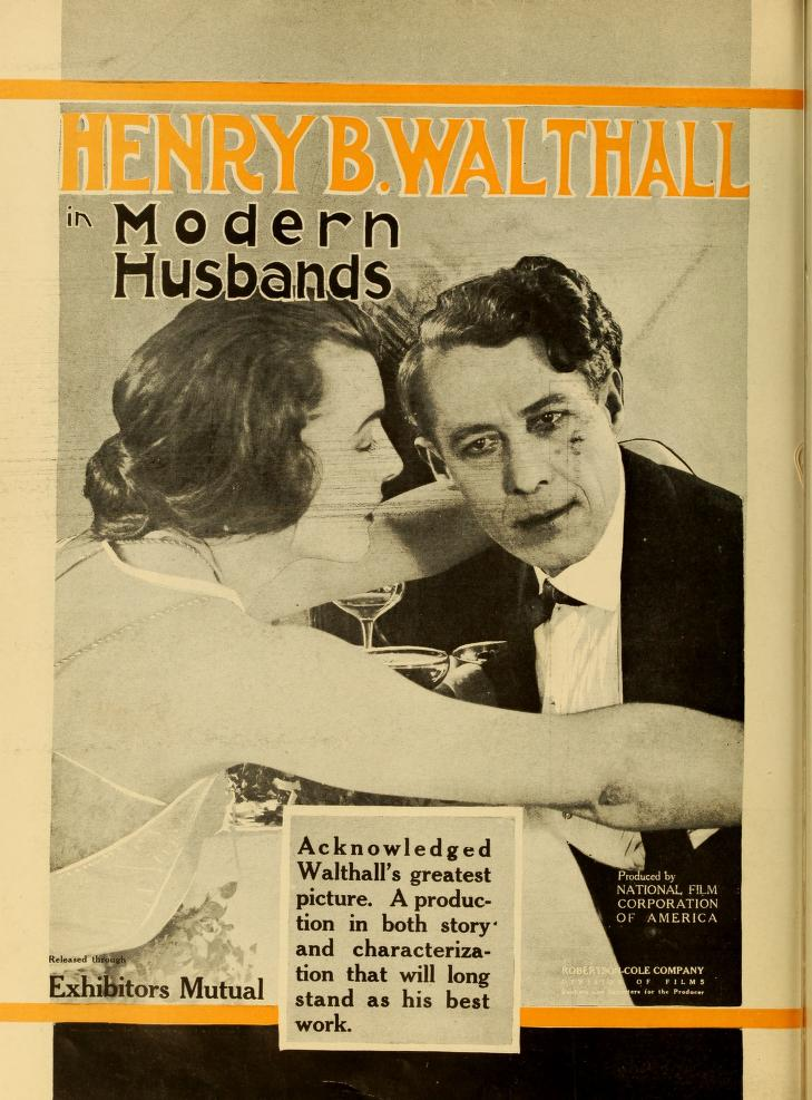 Advertisement in Moving Picture World, April 1919 for the film Modern Husbands (1919).